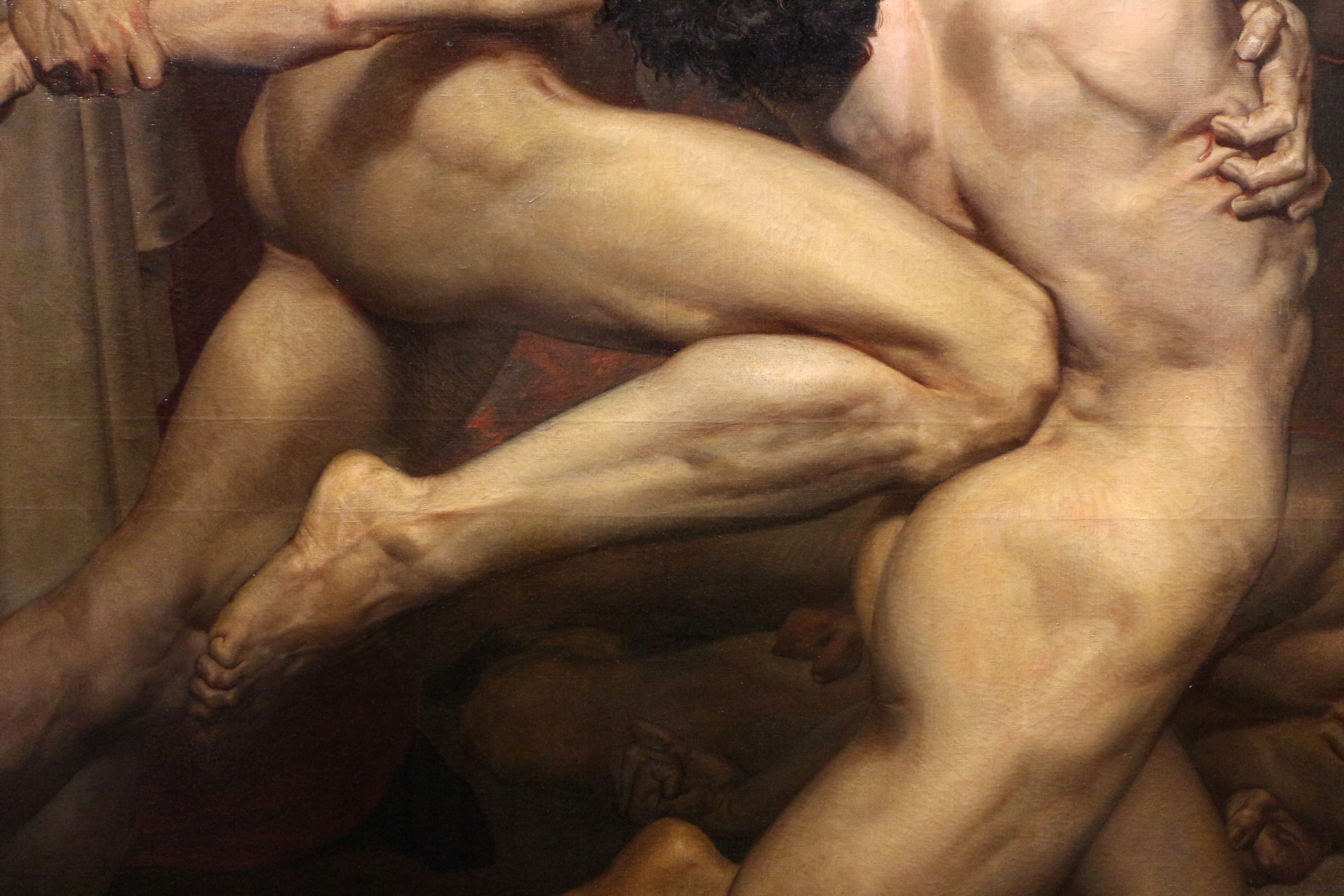 Paintings in Musée d'Orsay